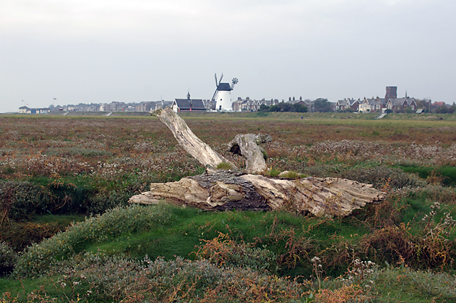 Salt marsh on the Ribble estuary You have to tread carefully around here as the grasses do a very good job of hiding deep holes in the ground.